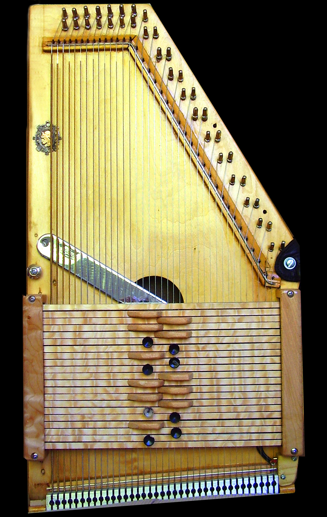 Custom electric autoharp of autoharpist Roger Penney who formed the BERMUDA TRIANGLE band, and also the duo ROGER AND WENDY.